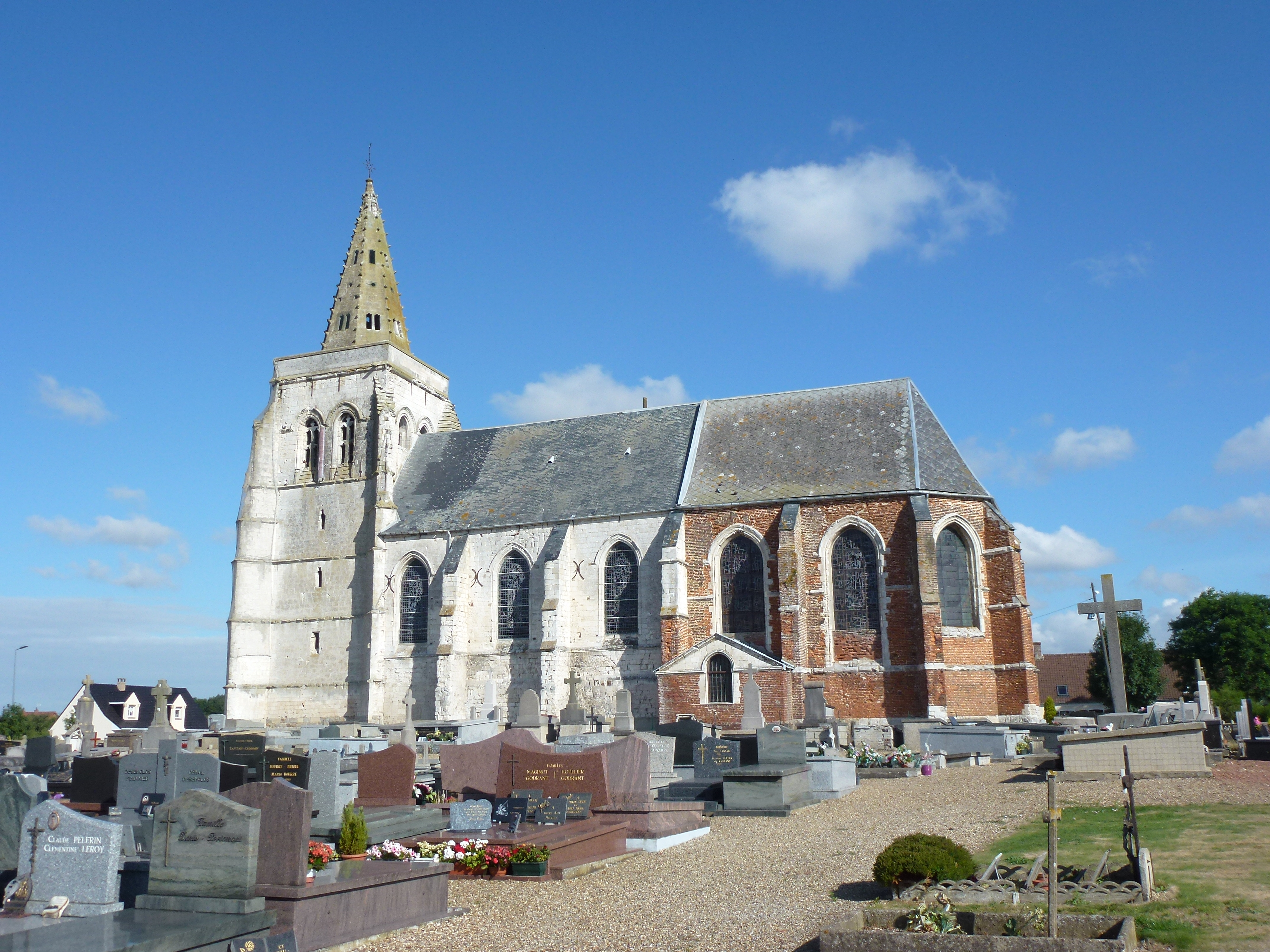 Helfaut (Pas-de-Calais, Fr) Église Saints-Fuscien-et-Victoric d'Helfaut